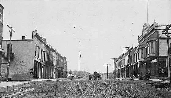 Main Street in Lansing, Iowa.